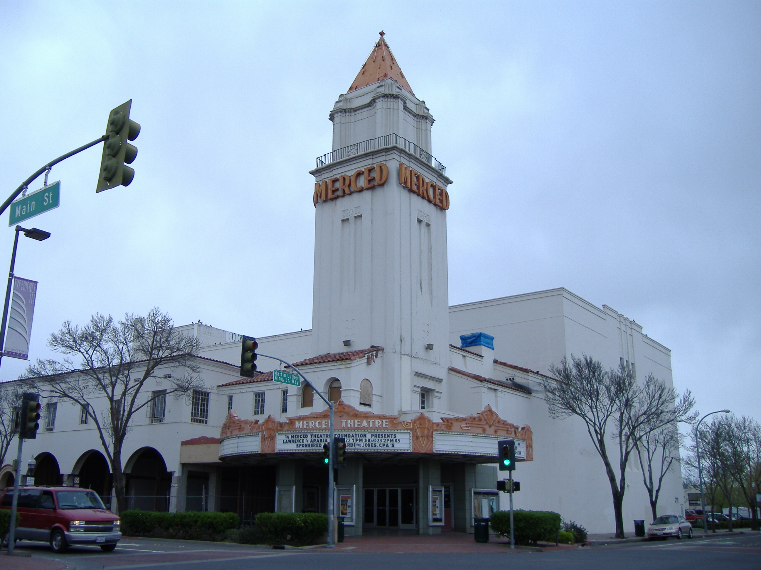 Tower Theater